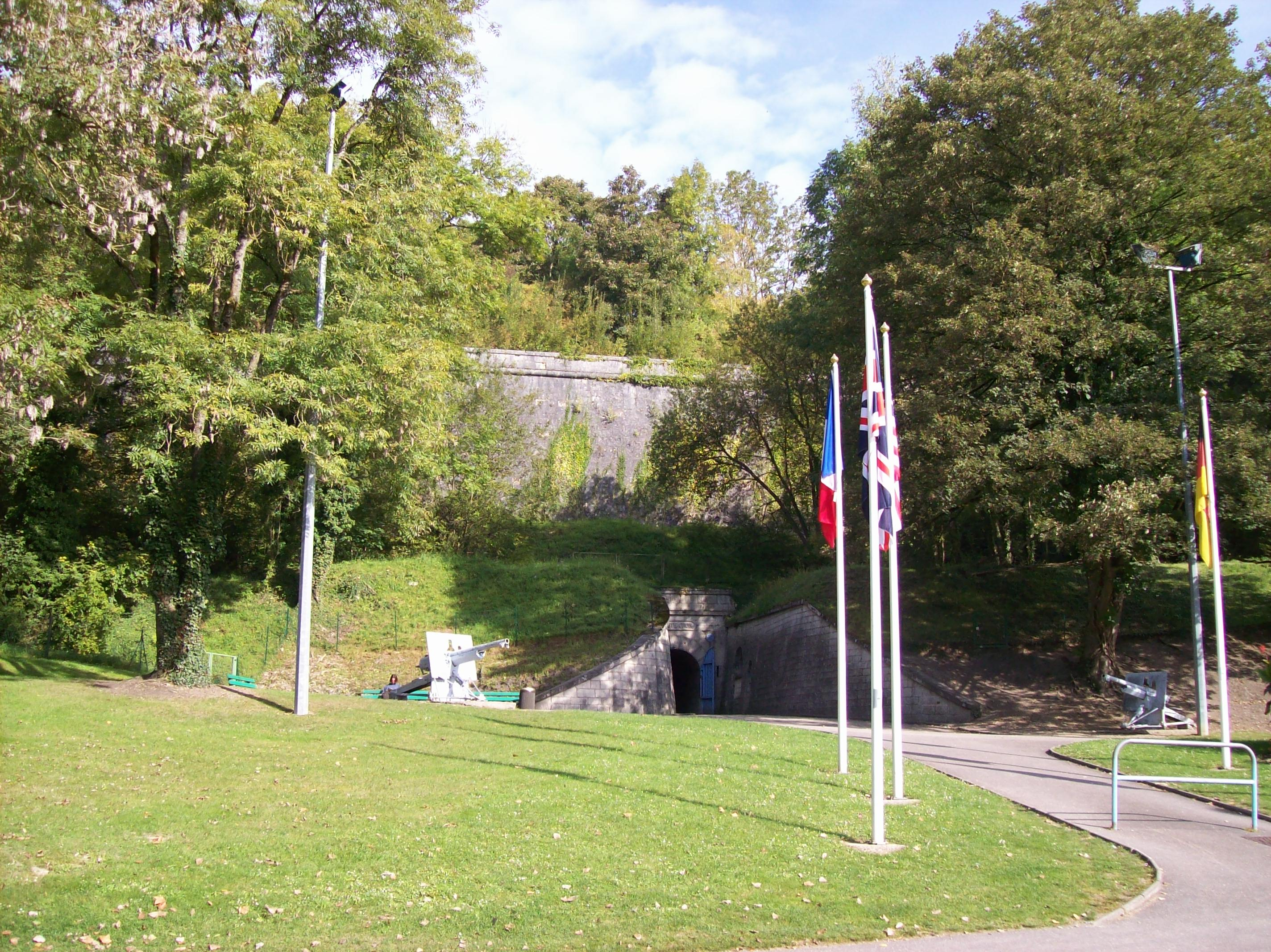 Entrance to the citadel in Verdun in 2007